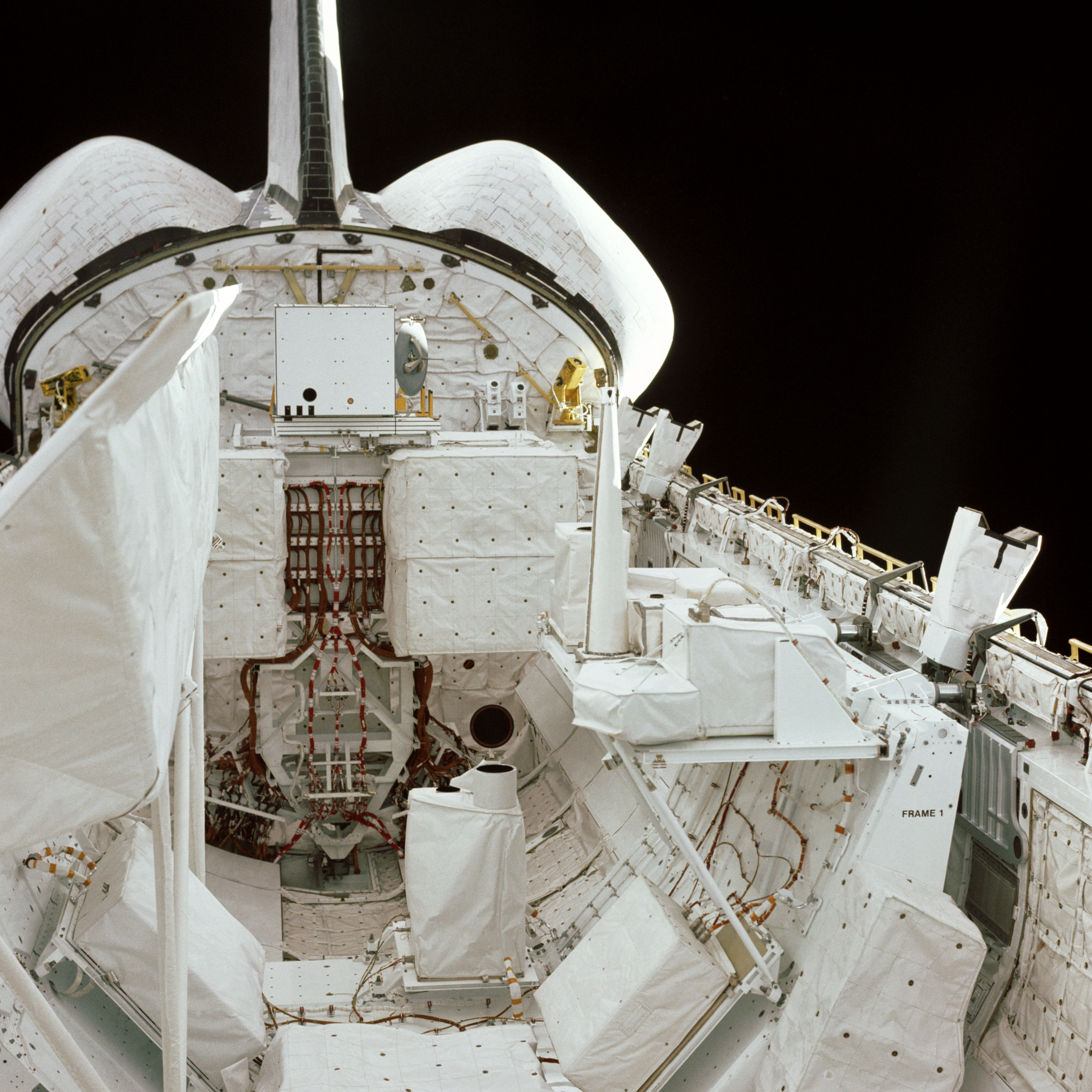 Photograph of the Columbia's cargo bay taken by the STS-2 crew. In the foreground is the OSTA-1 payload. The orbital maneuvering system (OMS) pods and vertical stabilizer of the Columbia are in the upper left corner.